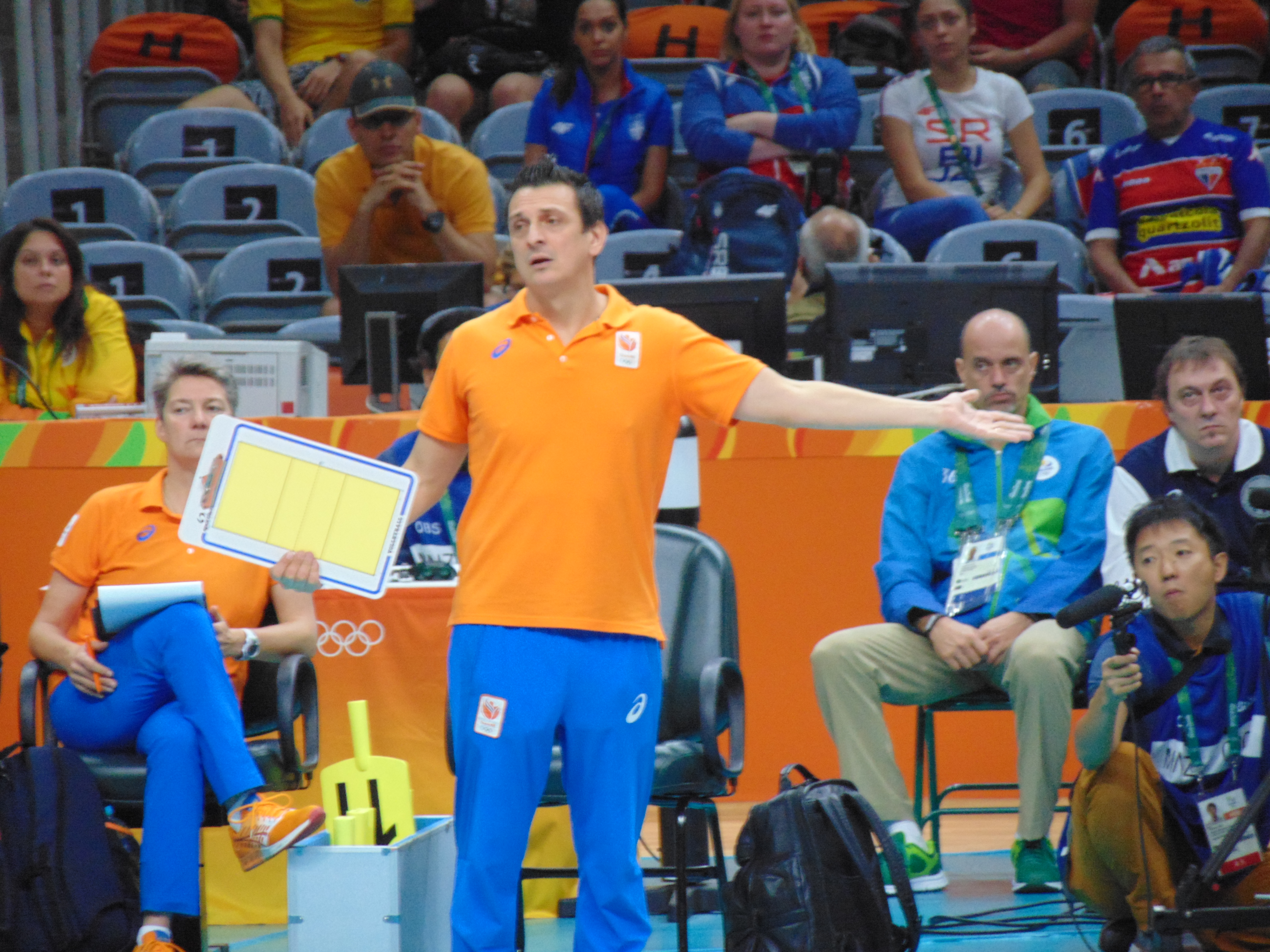 Rio 2016 - Women's volleyball 14 August